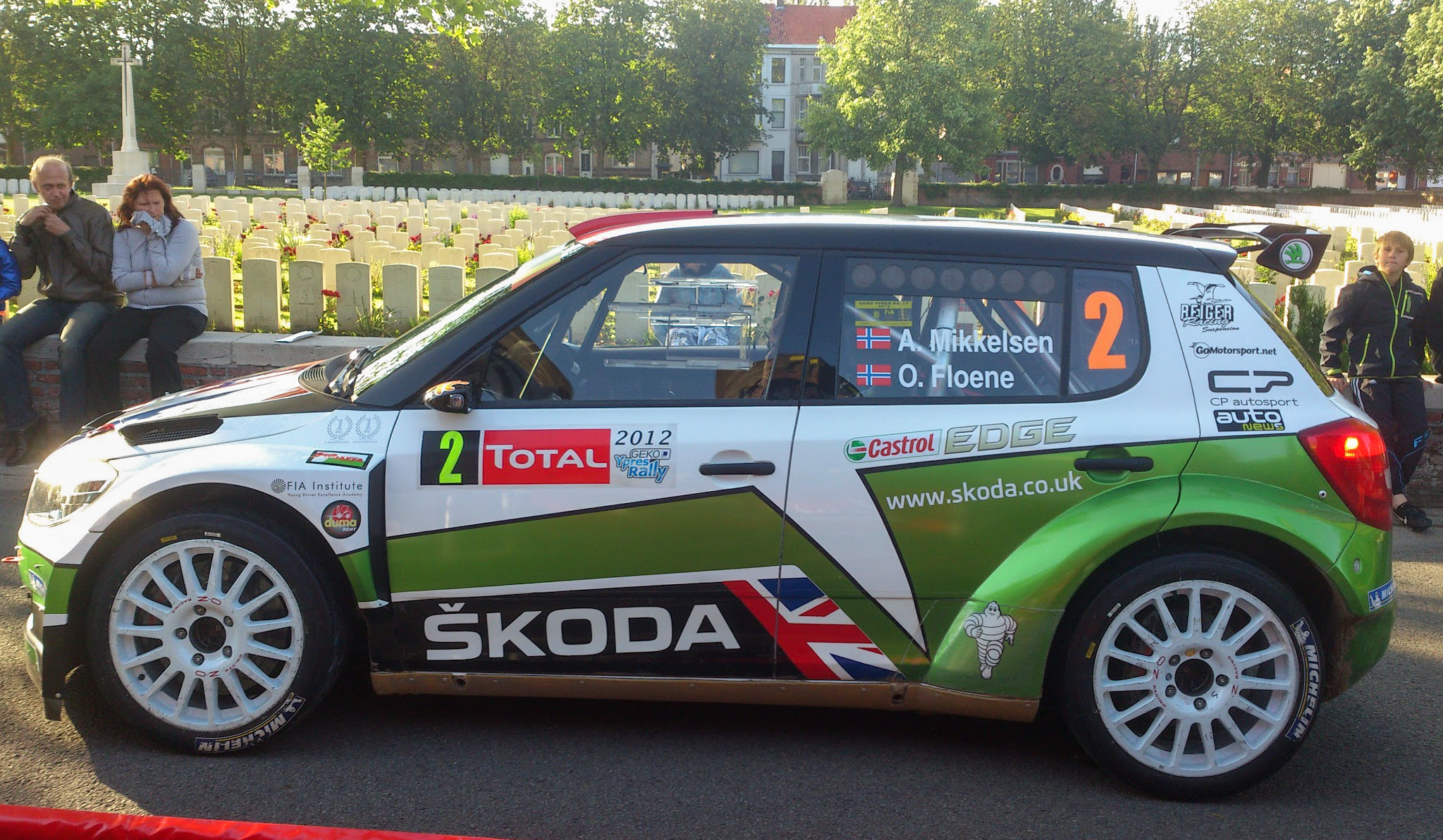 FIA GROUPE R Mikkelsen win the 2012 IRC championship (168 pts)